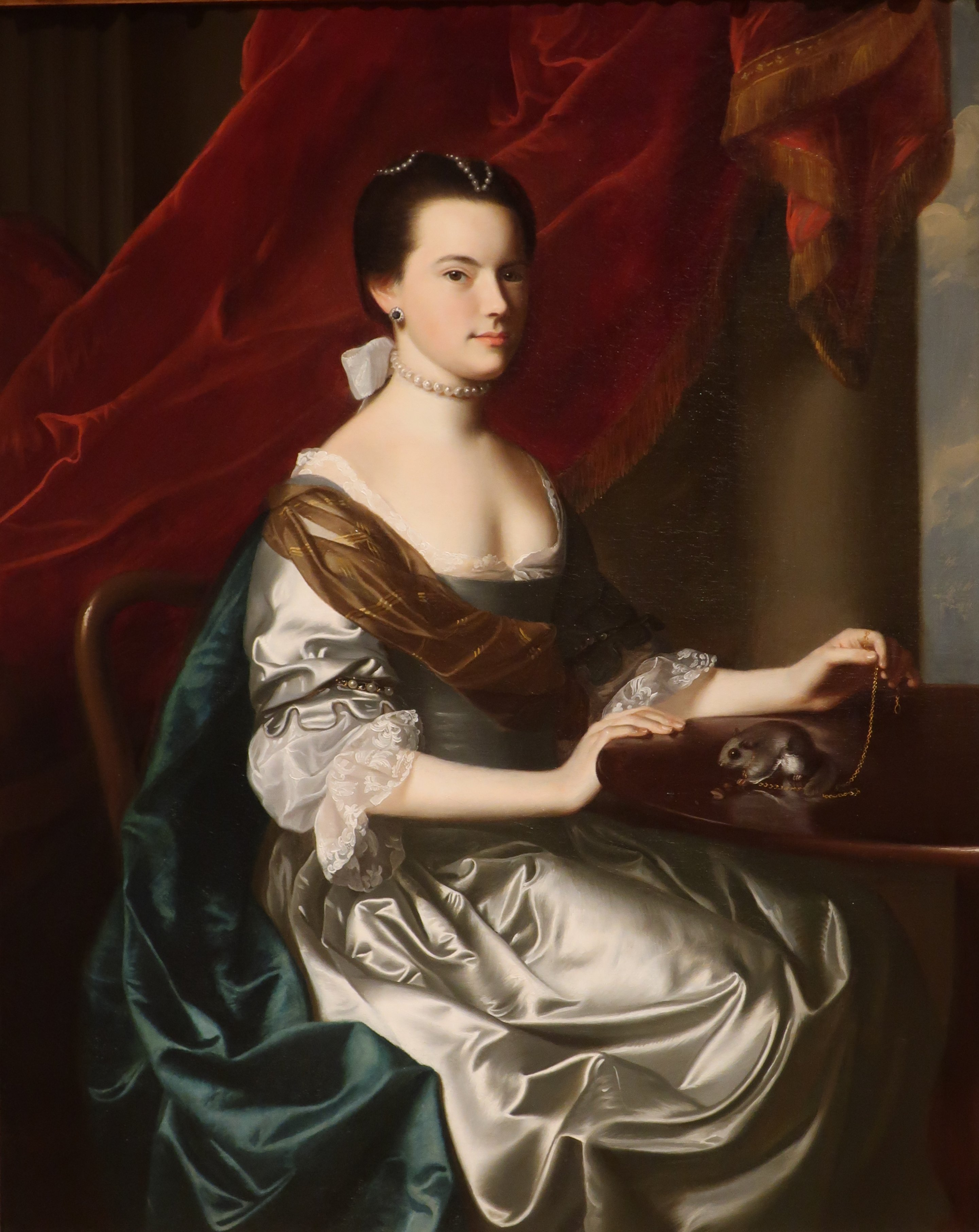 Portrait of Lady Frances Deering Wentworth, by John Singleton Copley, Crystal Bridges Museum of American Art. At the time the portrait was made, she was Mrs. Theodore Atkinson. She later married her cousin, John Wentworth.